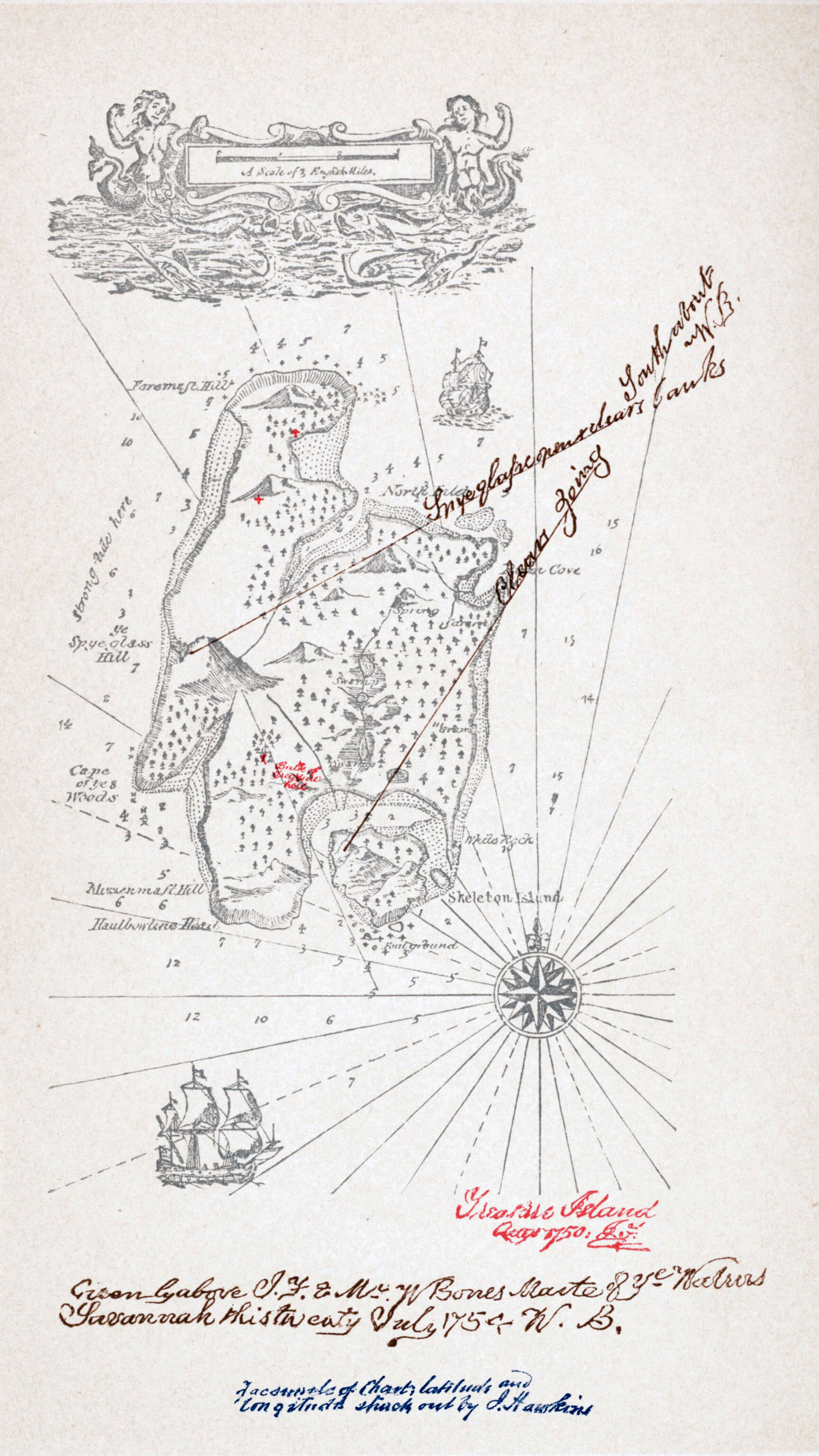 Map of Treasure Island from the 1883 edition by Cassel. "I sent in my manuscript, and the map along with it, to Messrs. Cassell. The proofs came, they were corrected, but I heard nothing of the map. I wrote and asked; was told it had never been received, and sat aghast. It is one thing to draw a map at random, set a scale in one corner of it at a venture, and write up a story to the measurements. It is quite another to have to examine a whole book, make an inventory of all the allusions contained in it, and with a pair of compasses, painfully design a map to suit the data. I did it; and the map was drawn again in my father’s office, with embellishments of blowing whales and sailing ships, and my father himself brought into service a knack he had of various writing, and elaborately FORGED the signature of Captain Flint, and the sailing directions of Billy Bones. But somehow it was never Treasure Island to me." (Robert Louis Stevenson, My First Book: ‘Treasure Island’, First published in the Idler, August 1894 .